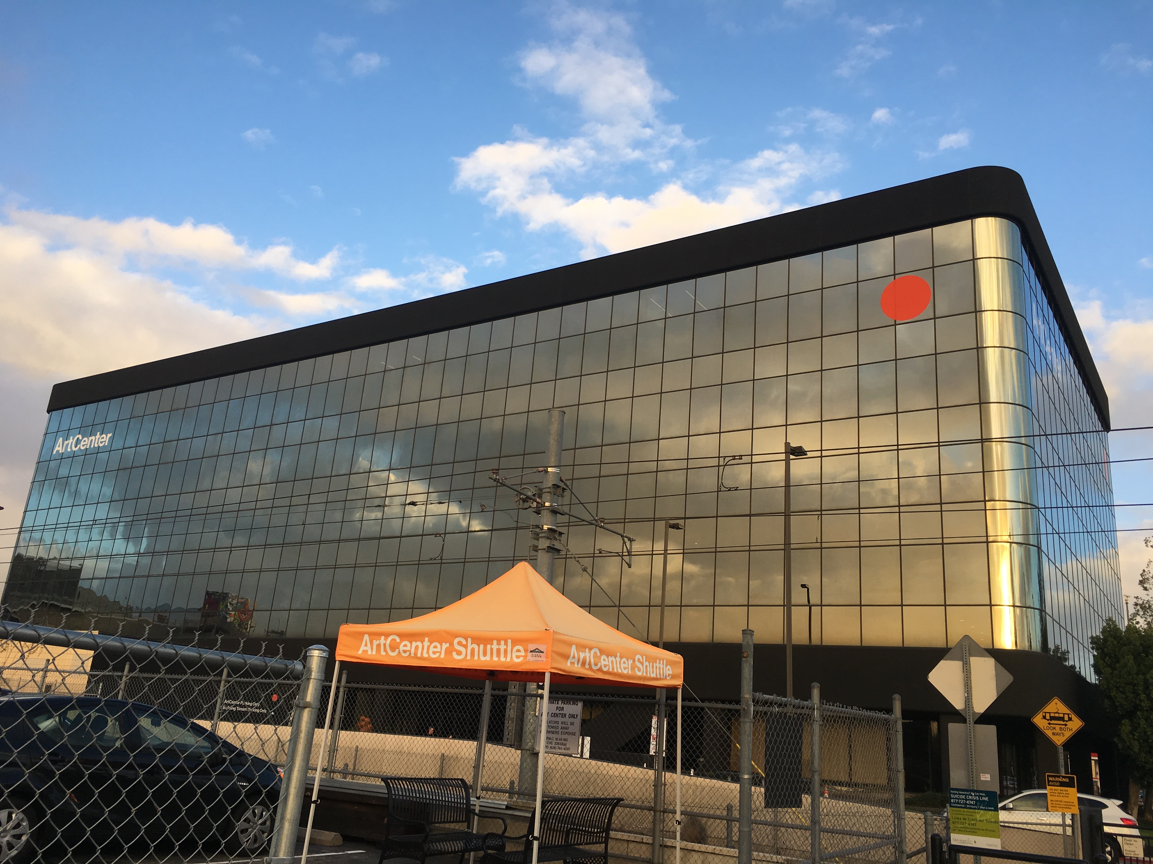 ArtCenter College of Design South Campus S1111